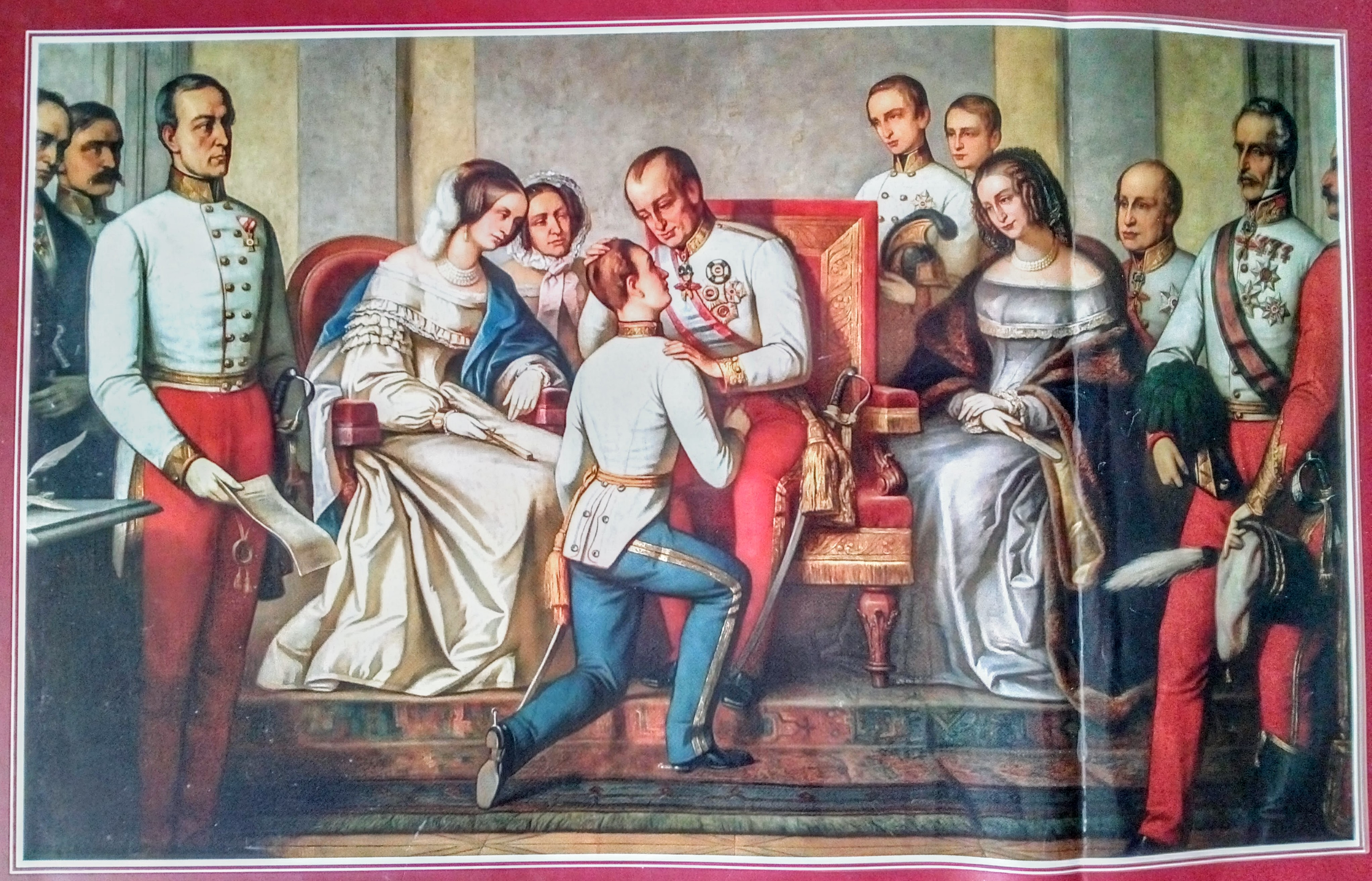 František Josef I. přijímá vládu z rukou svého strýce Ferdinanda Dobrotivého